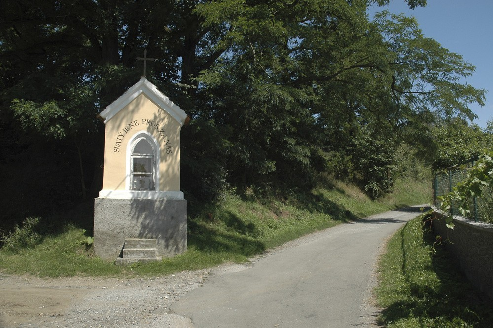 Village Mezihoří (Petrovice), Příbram District, the Czech Republic: a small chapel